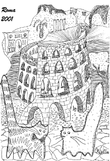 PLMCN1 log-cat